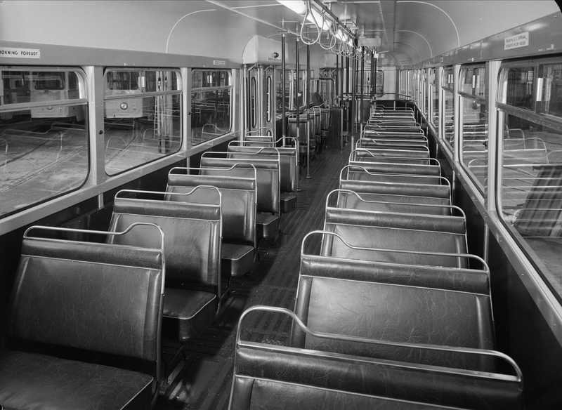 Interior of a Oslo Sporveier SM53 tramNorsk bokmål: Bildet viser interiøret i en Høka motorvogn (nr. 204-233) fra den første tiden. Vognene fikk etter kort tid skiftet ut dobbeltsetene foran midtdøren (nærmest til venstre på bildet) til enkeltseter slik at det ble plass til flere stående.